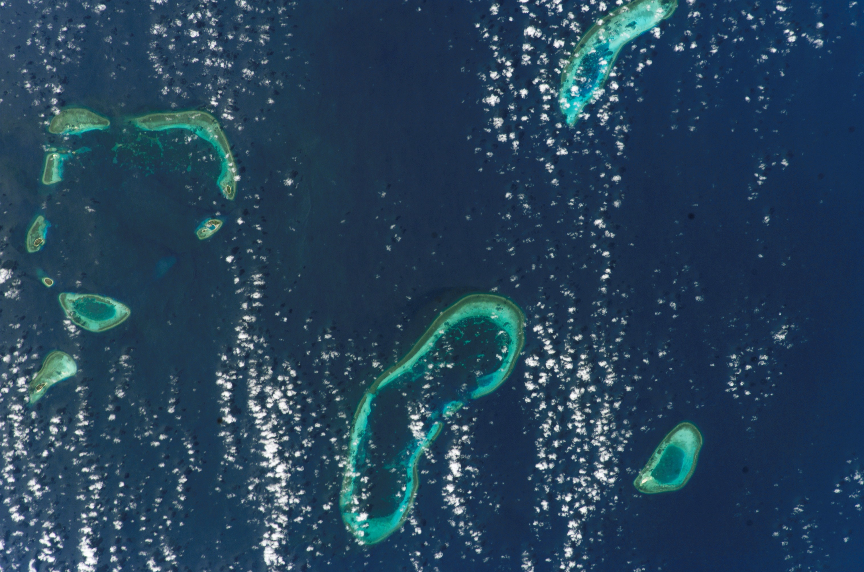 Photograph from the International Space Station of the South China Sea which includes the Cresent Group and Discovery Reef features.